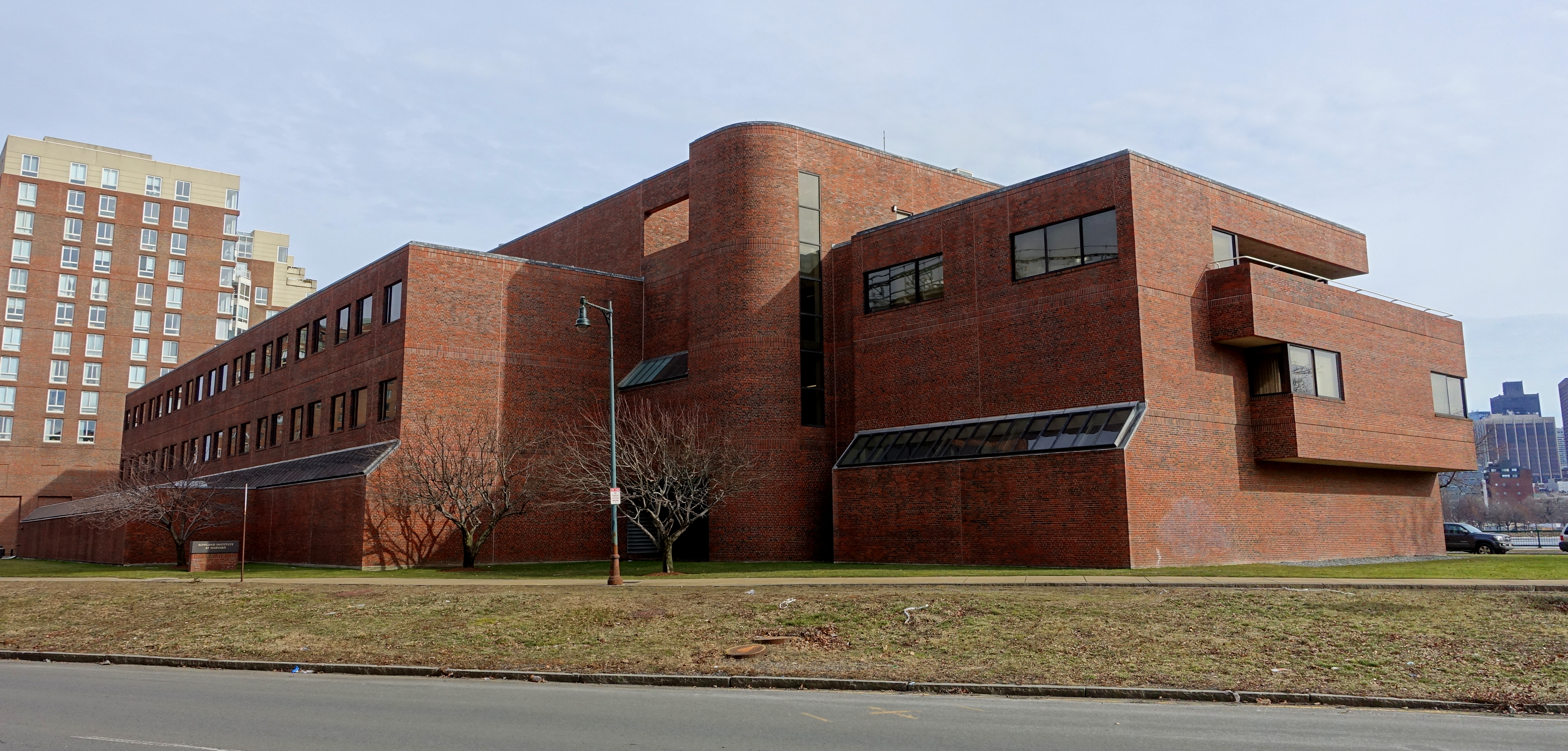 Rowland Institute at Harvard - 100 Edwin H. Land Boulevard, Cambridge, Massachusetts, USA. Originally founded in 1980 by Edwin H. Land as The Rowland Institute for Science.